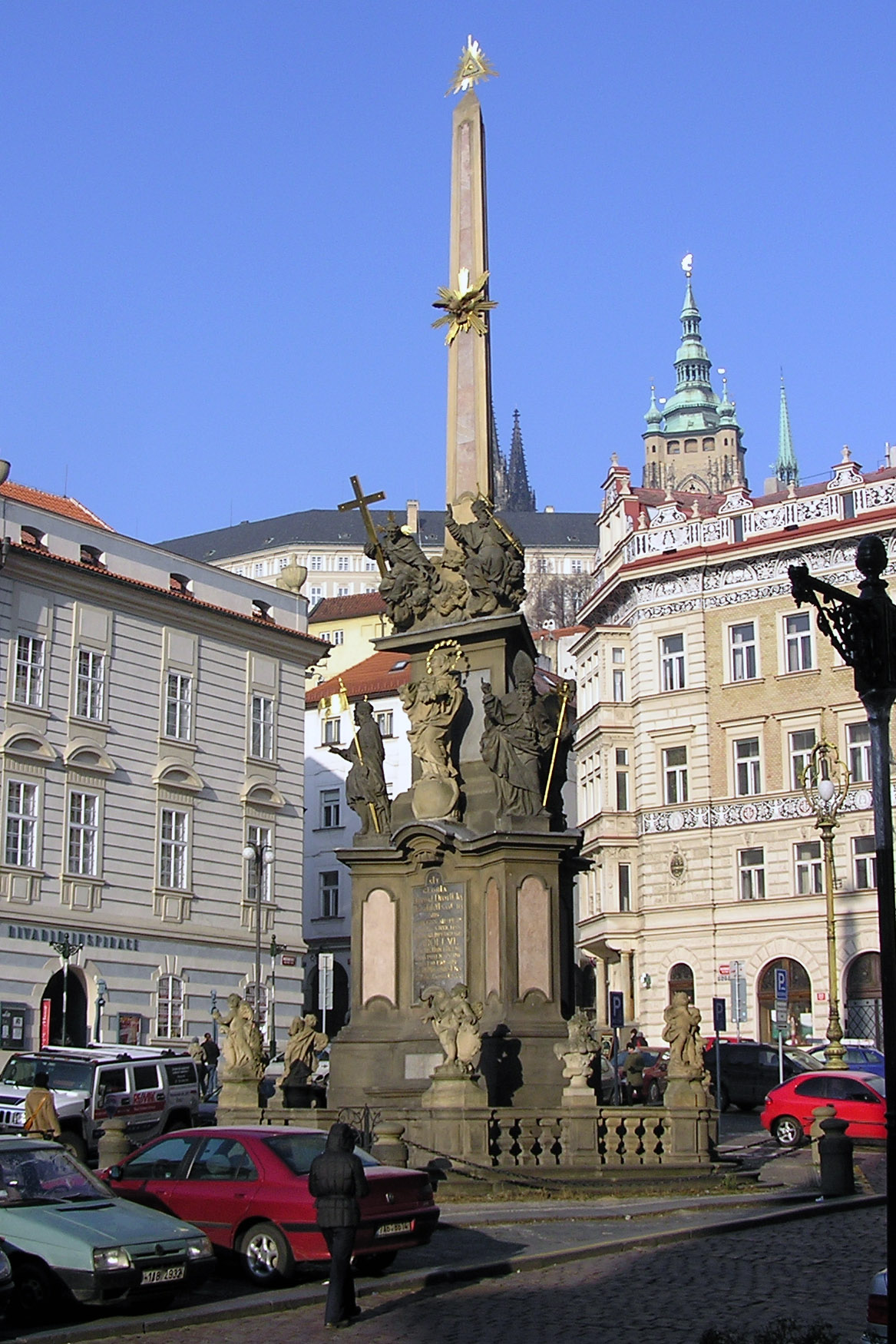 Holy Trinity Column on Lesser Town Square, Prague